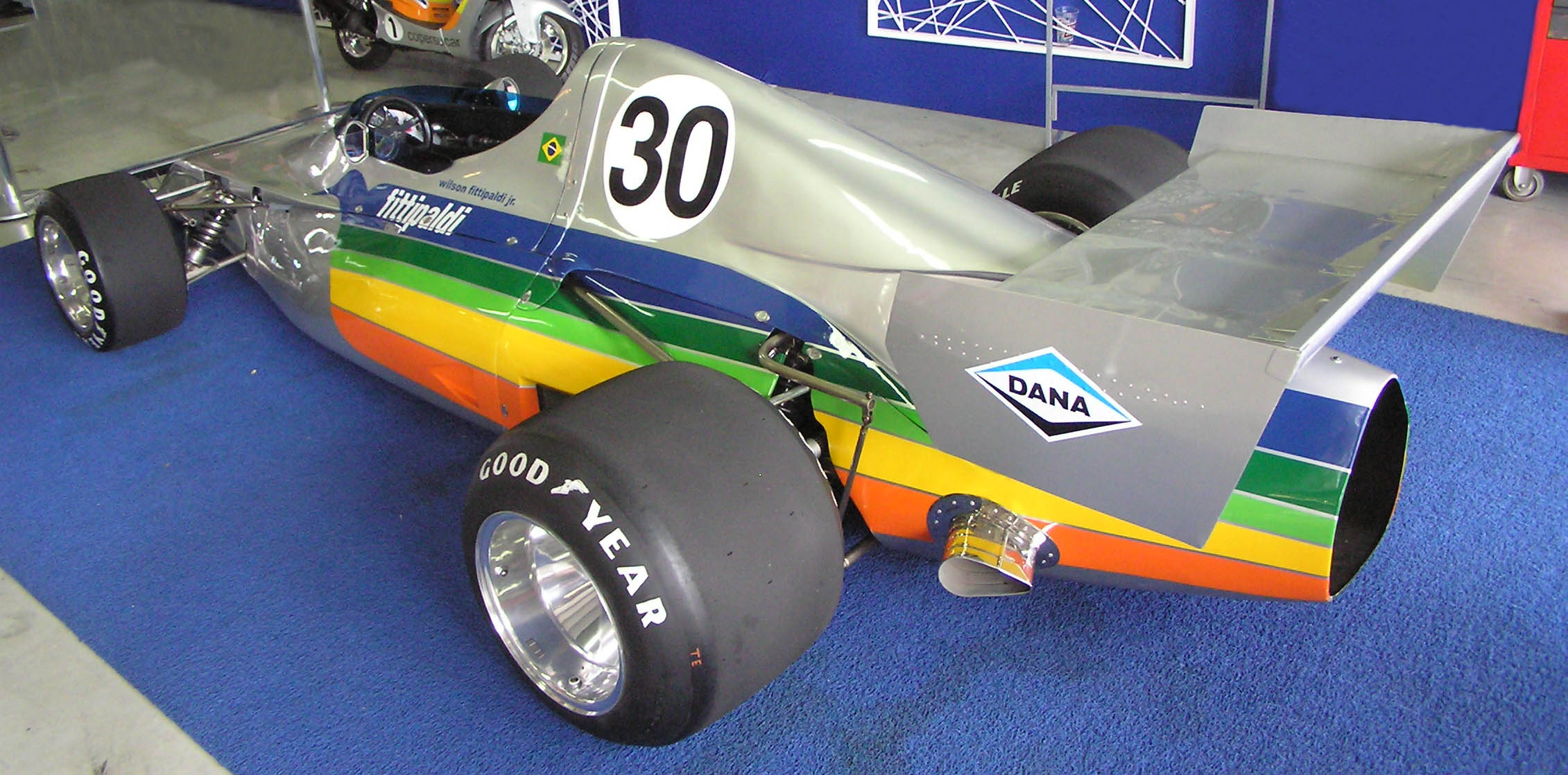 Fittipaldi FD-01's rear section